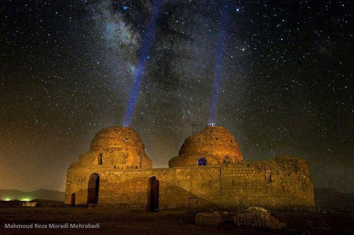 kakh sanan sarvestan fars